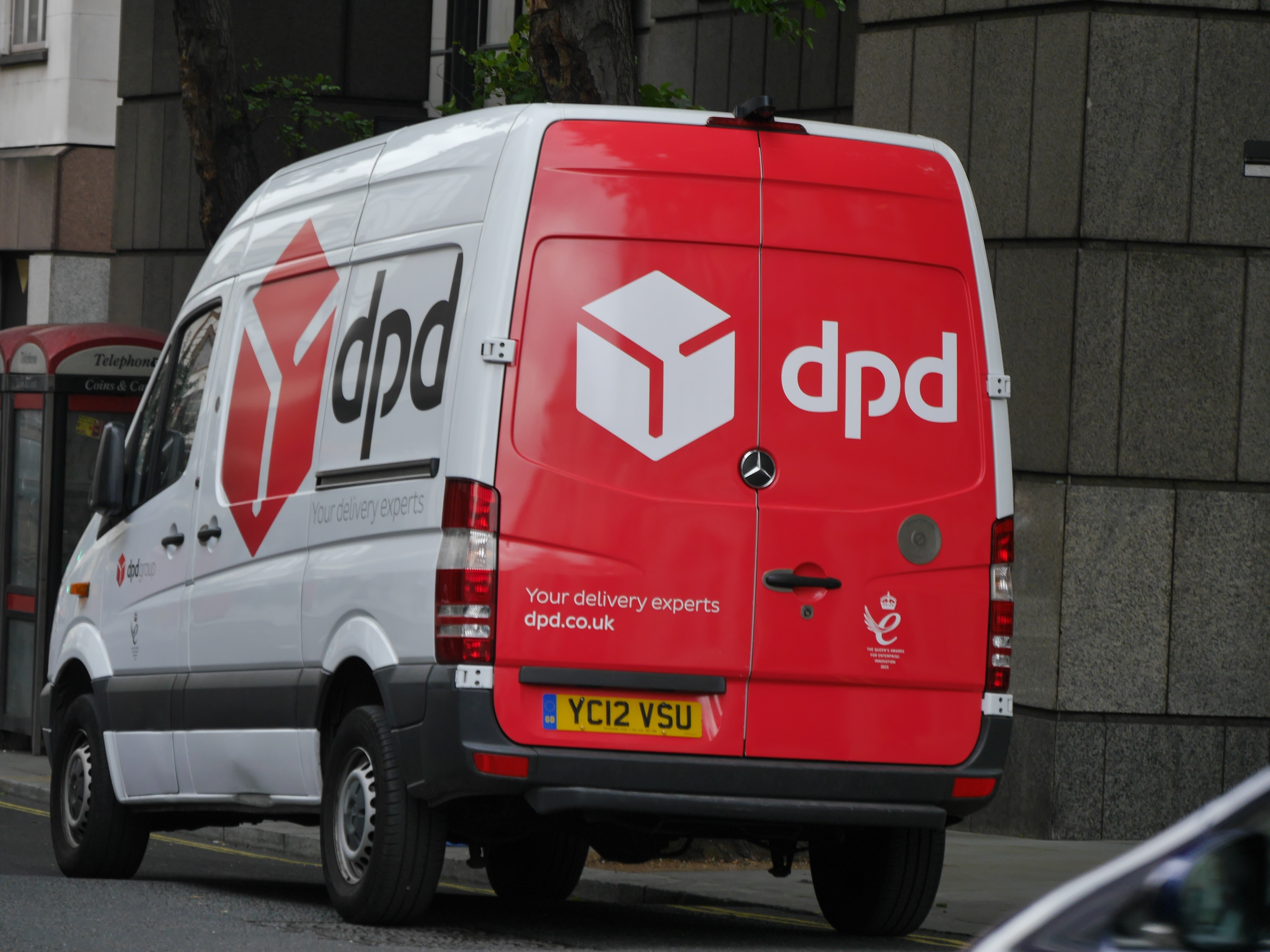 Monmouth Street, Covent Garden